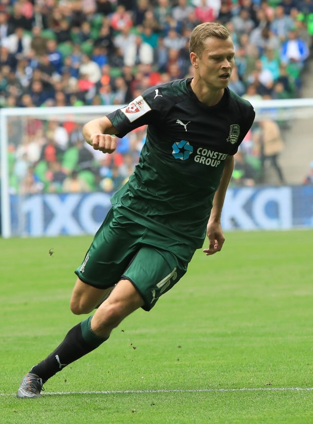 Viktor Claesson